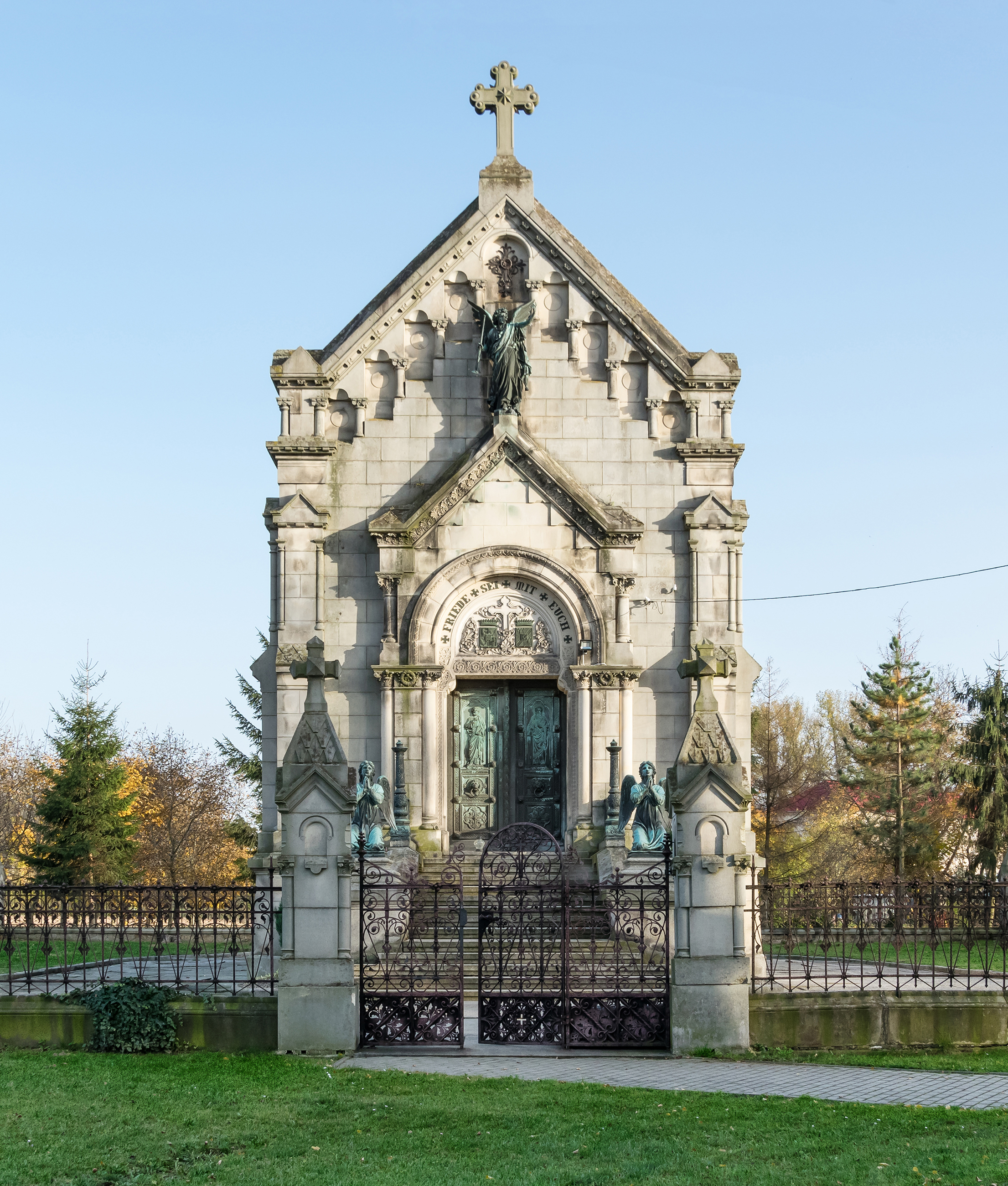 Mausoleum of von Magnis family in Ołdrzychowice Kłodzkie